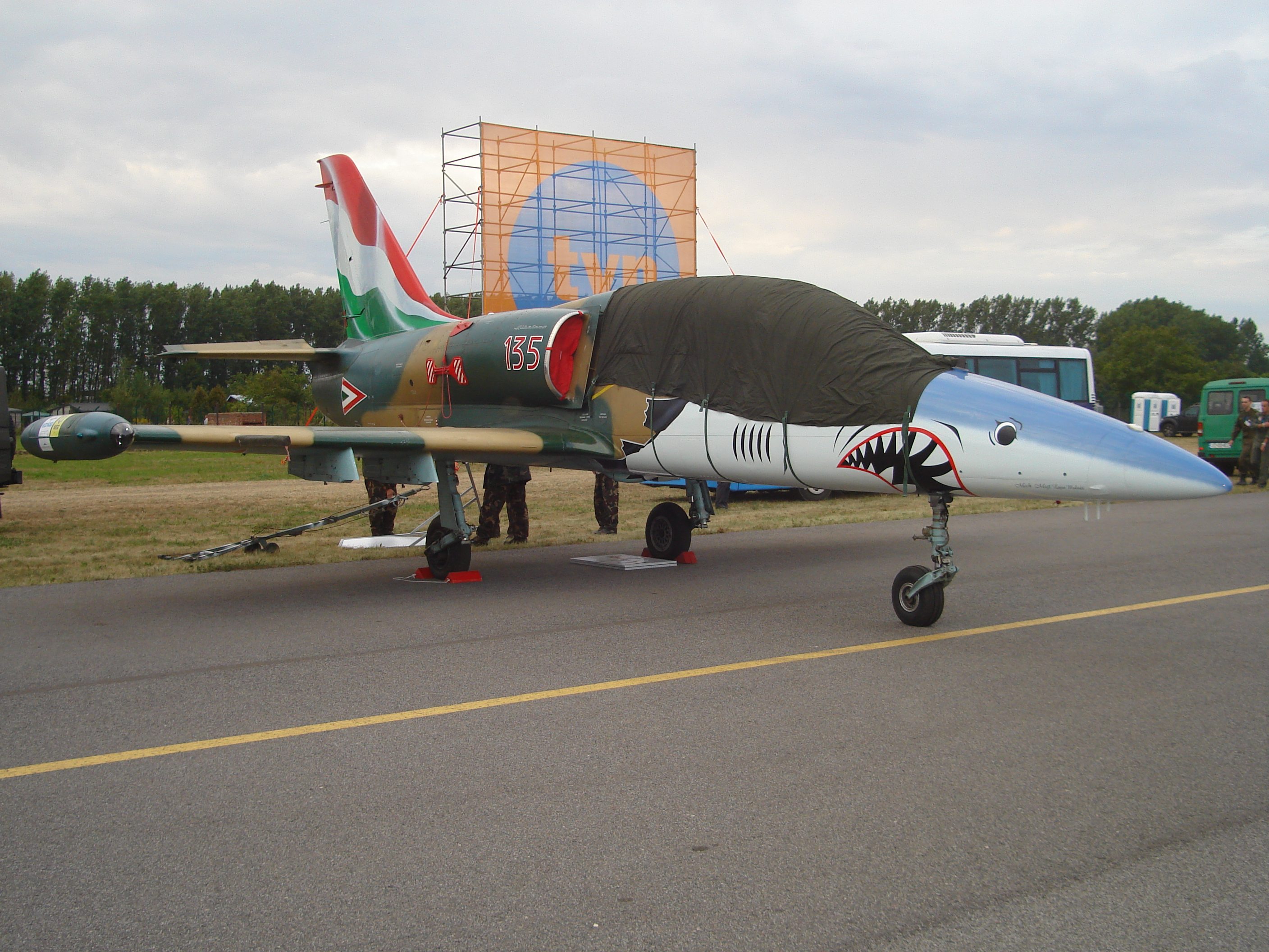 Picture of Aero L-39ZO Albatros, Radom Air Show 2007